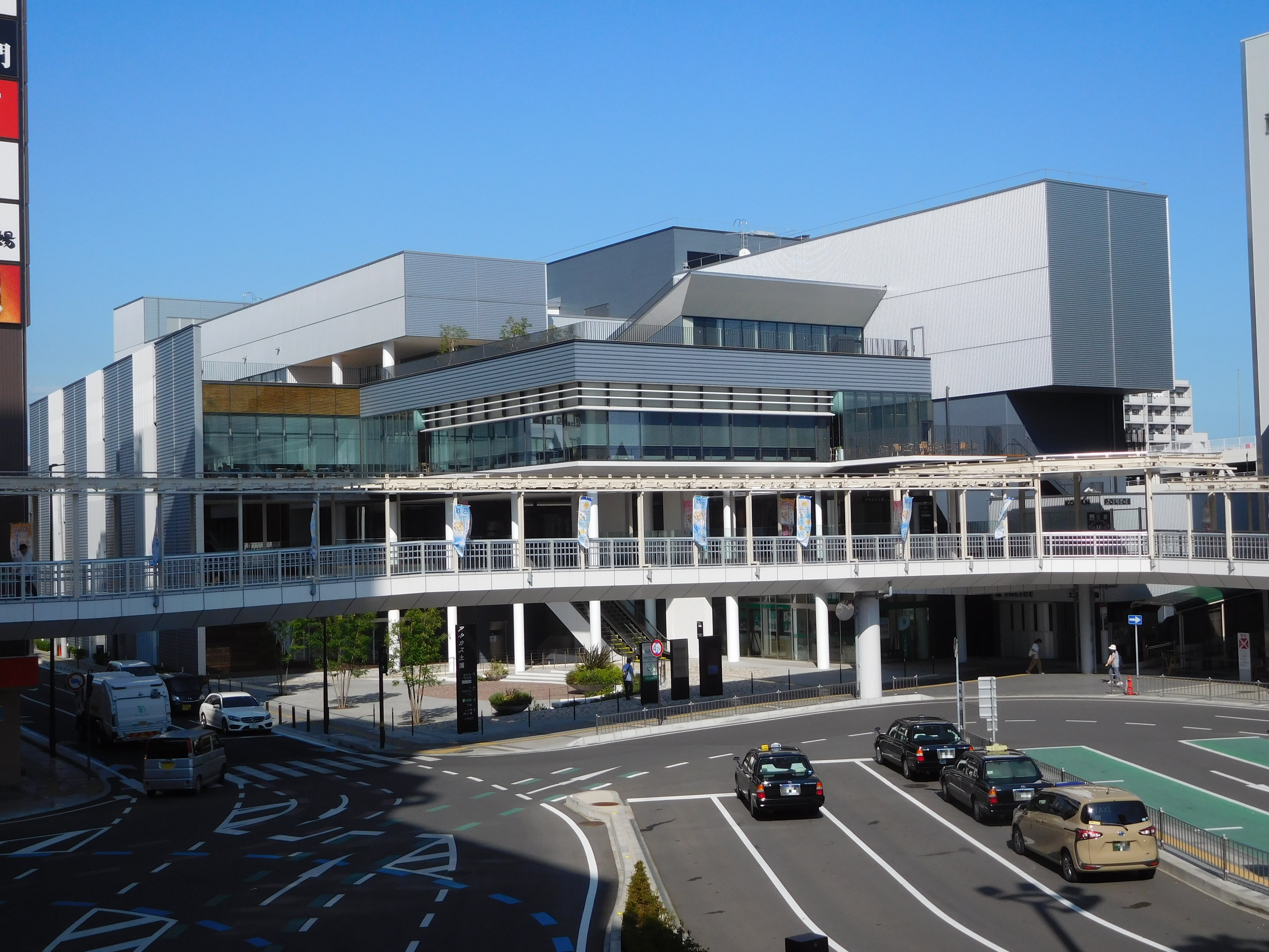 It is ARCUS Tsuchiura in Tsuchiura, Ibaraki, Japan.